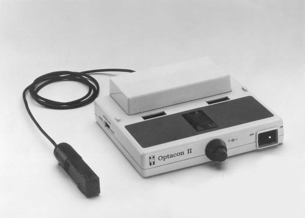 Optacon II Reading Machine for the Blind